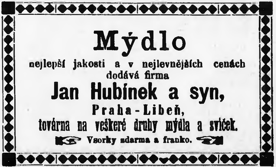 Advertisement 1895, Jan Hubínek, soap producer, Prague